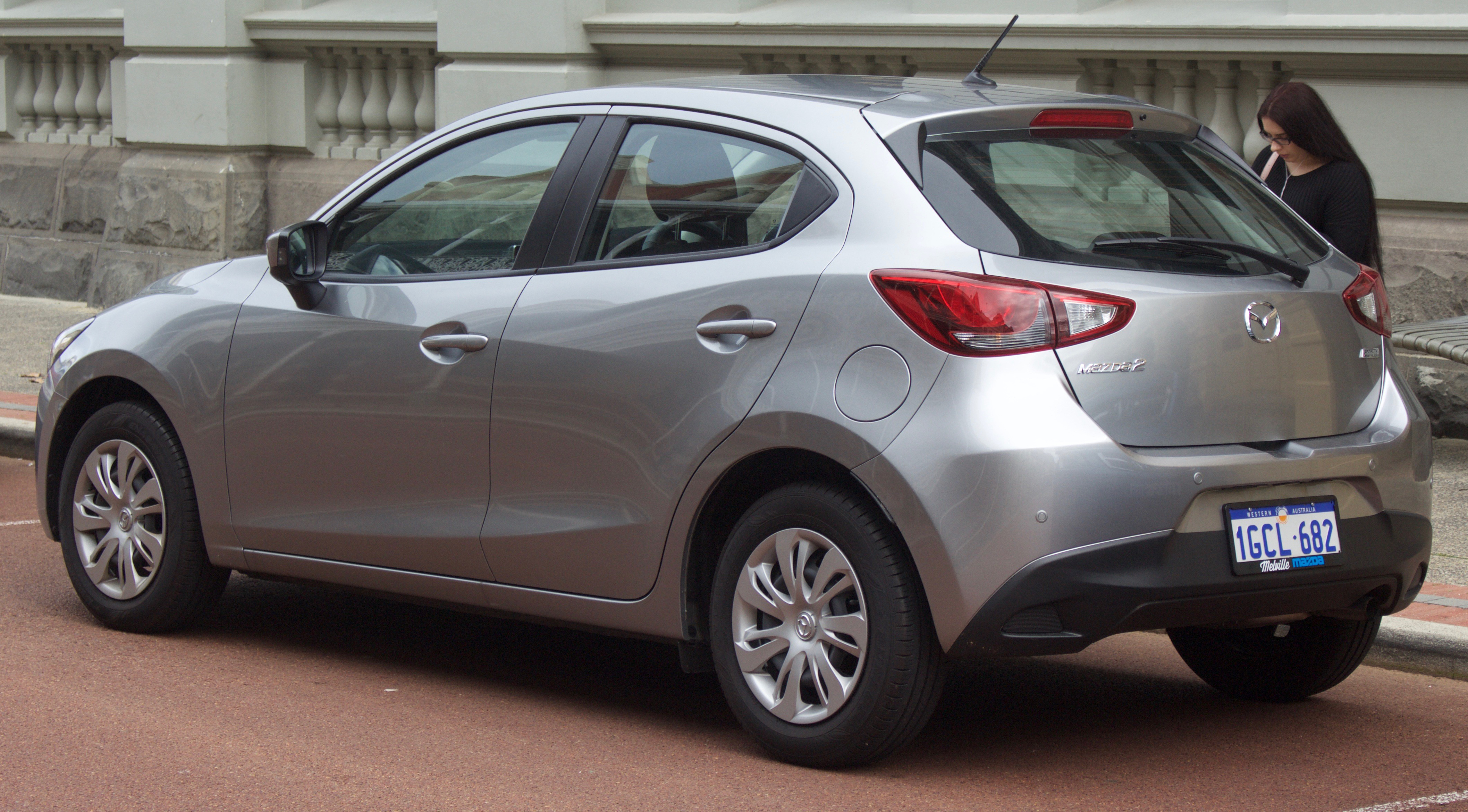 2016 Mazda2 (DJ) Neo hatchback. Photographed in Fremantle, Western Australia, Australia.